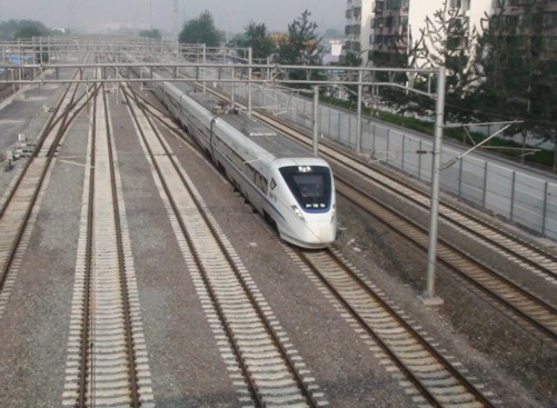 A type of high-speed EMU including sleeping cars in China.